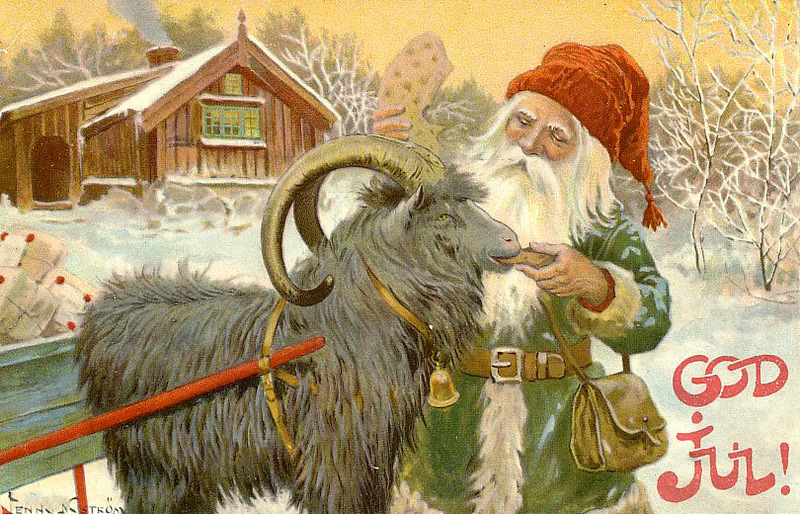 Jenny Nystrom. God Jul.